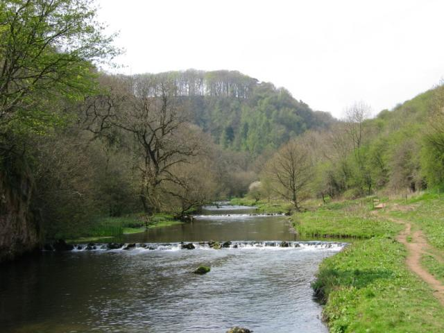 Millers Dale along the Monsal Trail. Near to the metal railway viaducts is a wooden bridge over the water which provides this shot.